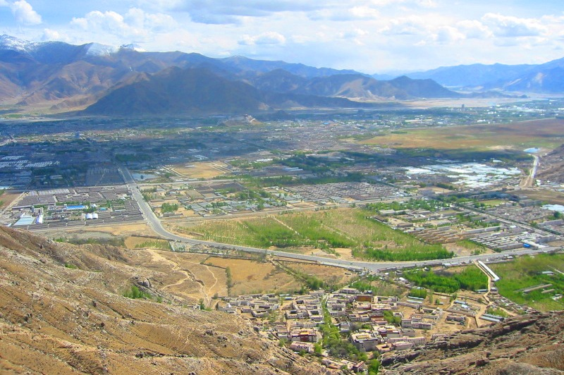 The Lhasa Valley in Tibet, with Sera Monastery in the foreground.